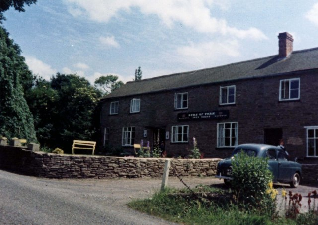 The Duke of York - Leysters c1965. The old map calls it Laysters the new Leysters. I hope the pub is still going strong!